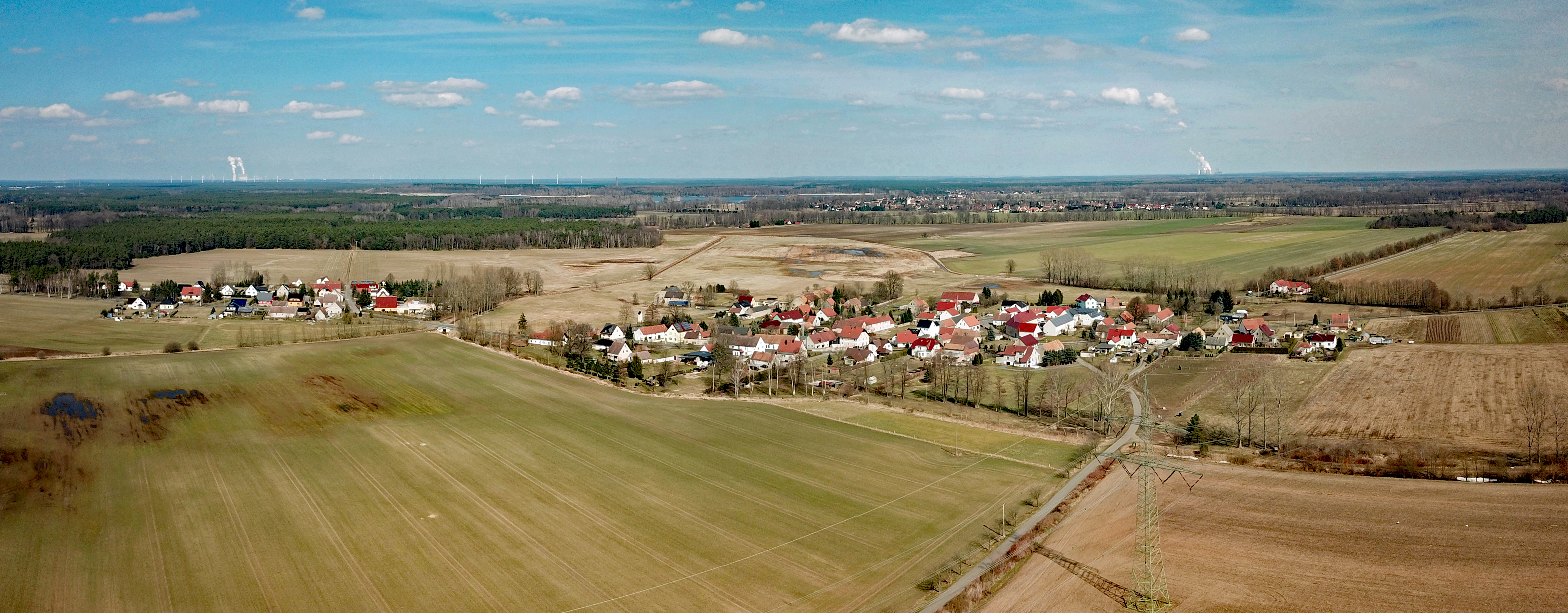 Rachlau (Wittichenau, Saxony, Germany) Hornjoserbsce: Powětrowy wobraz Rachlowa pola Kulowa